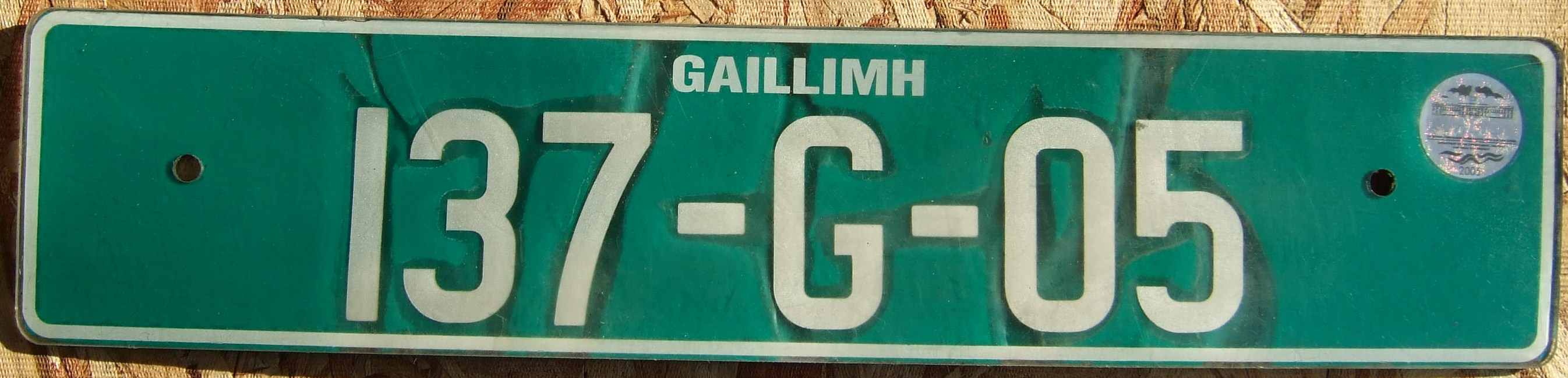 All reflective white on green garage or dealer plate from Galway county Ireland. This plate has a hologram in the upper right hand corner. While normal Irish plates of this series have the registration year "05=2005" in the prefix position, dealer plates have the registration year in the suffix position. This plate is made of plastic.